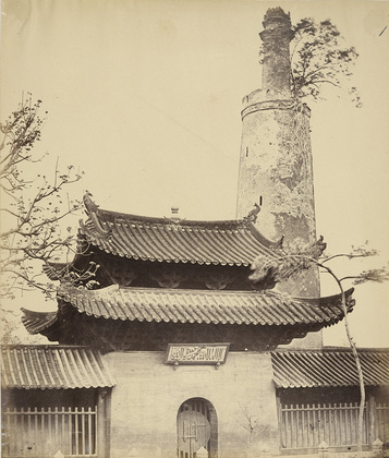 Mohammedan Mosque, Canton, albumen silver print by Felice Beato, April 1860. Lighthouse Mosque(Huaisheng), showing the Lighthouse minaret, Canton(Guangzhou), Kwangtung, China. According to tradition, the mosque was founded in 627. The minaret was built in the 10th century.